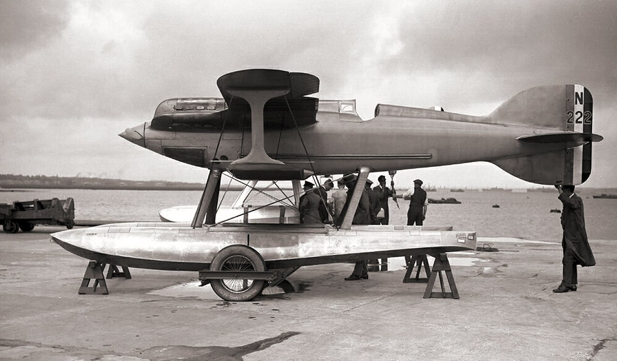 The Gloster Napier IVB N.222 photographed at Calshot before the 1927's edition ot the Schneider Trophy race held at Venice